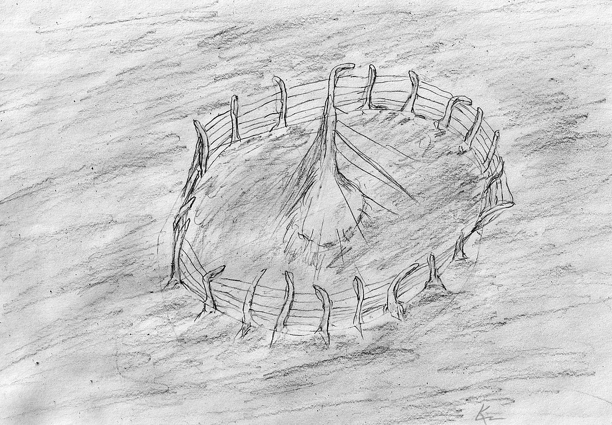 Original sketch of a silkhenge structure, by moi.